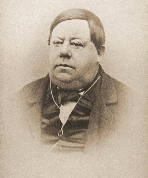 Josef Groll (1813–1887), Bavarian brewer and inventor of the Pilsener style lager beer.